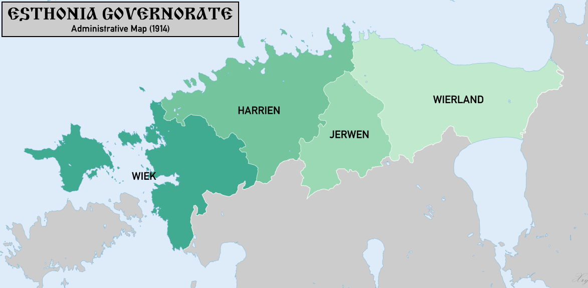 Map of the Esthonia Governorate of the Russian Empire in 1914 showing districts. Source Map Data: Специальная карта европейской России (1:420k), Ubersichtskarte von Mitteleuropa (1:300k), courtesy of